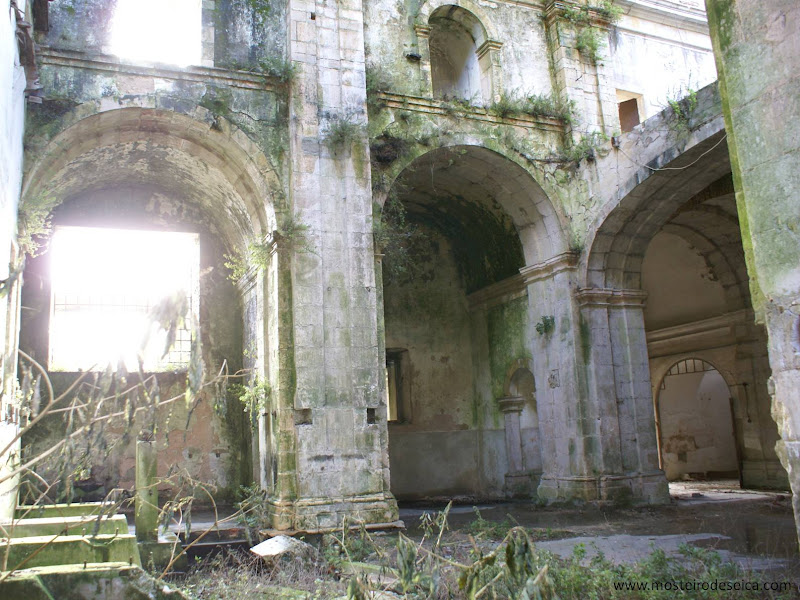 Mosteiro de Seiça 05